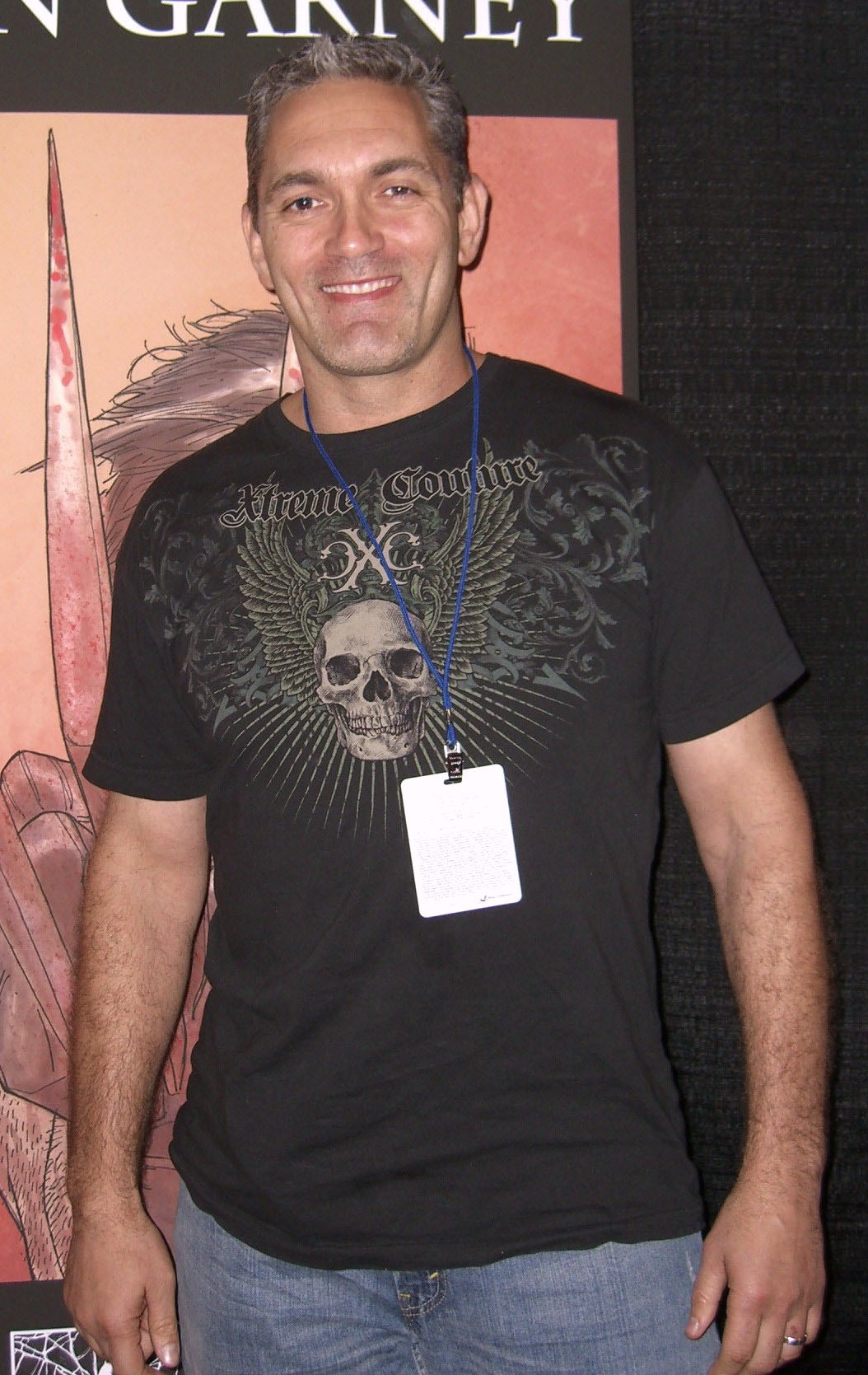 Comic book creator Ron Garney, at the New York Comic Convention in Manhattan, October 9, 2010. Photo by Luigi Novi. This photo may be used, modified and published for any purpose, only if a easily visible credit to the photographer is placed near the photo in each instance in which it is used. (See licensing information below.) Publication of this photo without this proper attribution constitute copyright infringement. For more information on my photos, you can contact me here.